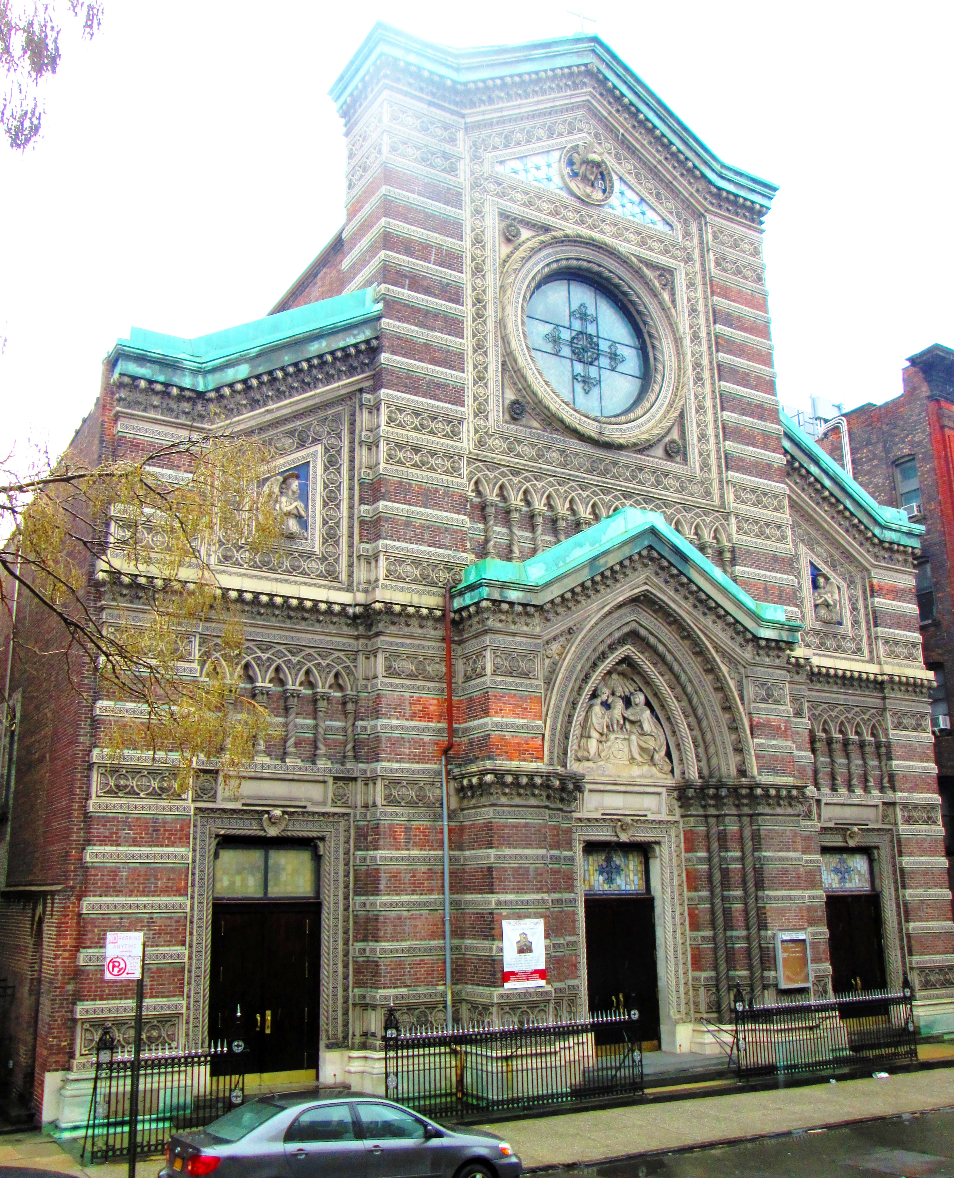 The St. Aloysius Catholic Church is a Roman Catholic parish church in the Archdiocese of New York, located at 207-217 West 132nd Street between Adam Clayton Powell Jr. Boulevard and Frederick Douglass Boulevard in the Harlem neighborhood of Manhattan, New York City. It was built in 1902-04 and was designed by William W. Renwick – the nephew of James Renwick Jr. – in the Italian Gothic Revival style. It has been called a "little-known treasure". (Source: Guide to NYC Landmarks (4th ed.))